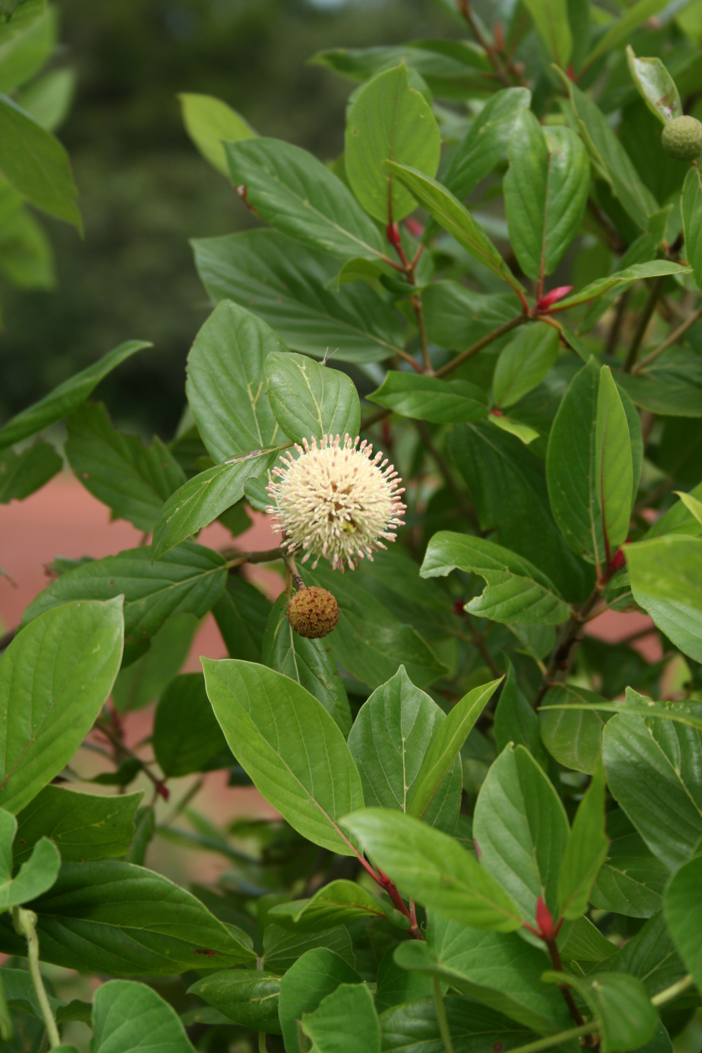 Mitragyna inermis, inflorescence and leaves, SE Burkina Faso